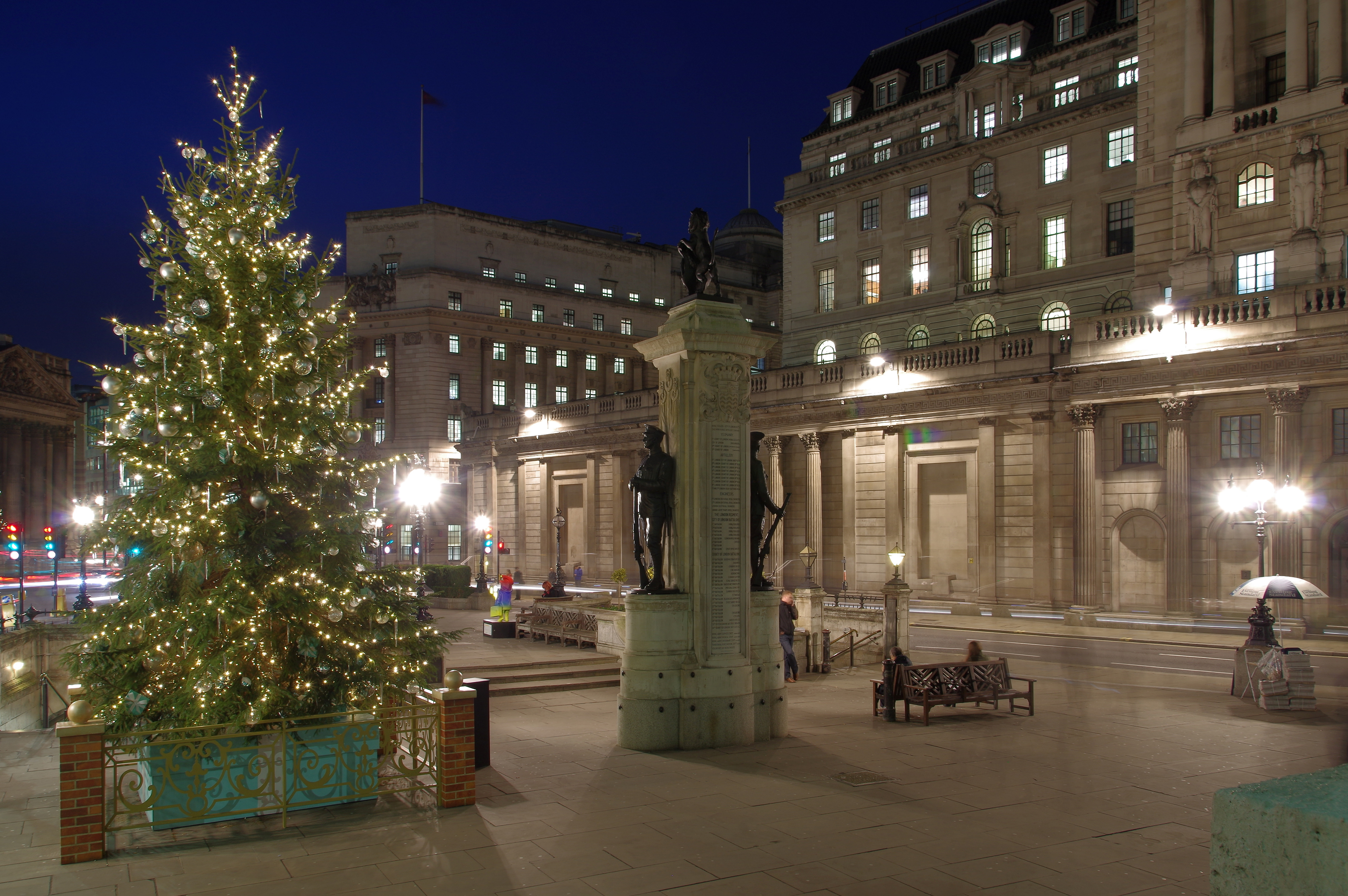 The small plaza outside the Royal Exchange in the City of London.